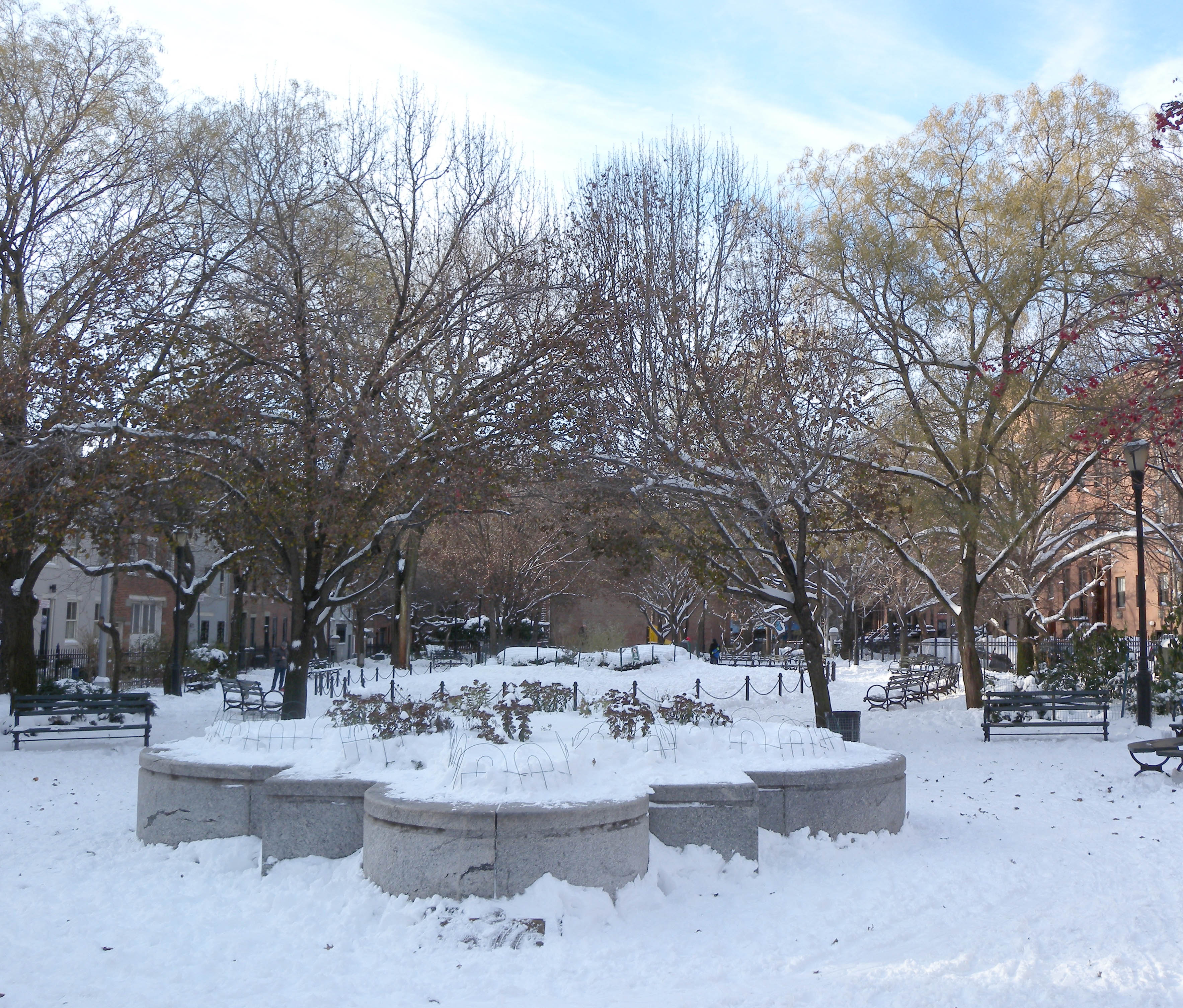 Looking west into Cobble Hill, Brooklyn Park on a sunny afternoon after snowfall.